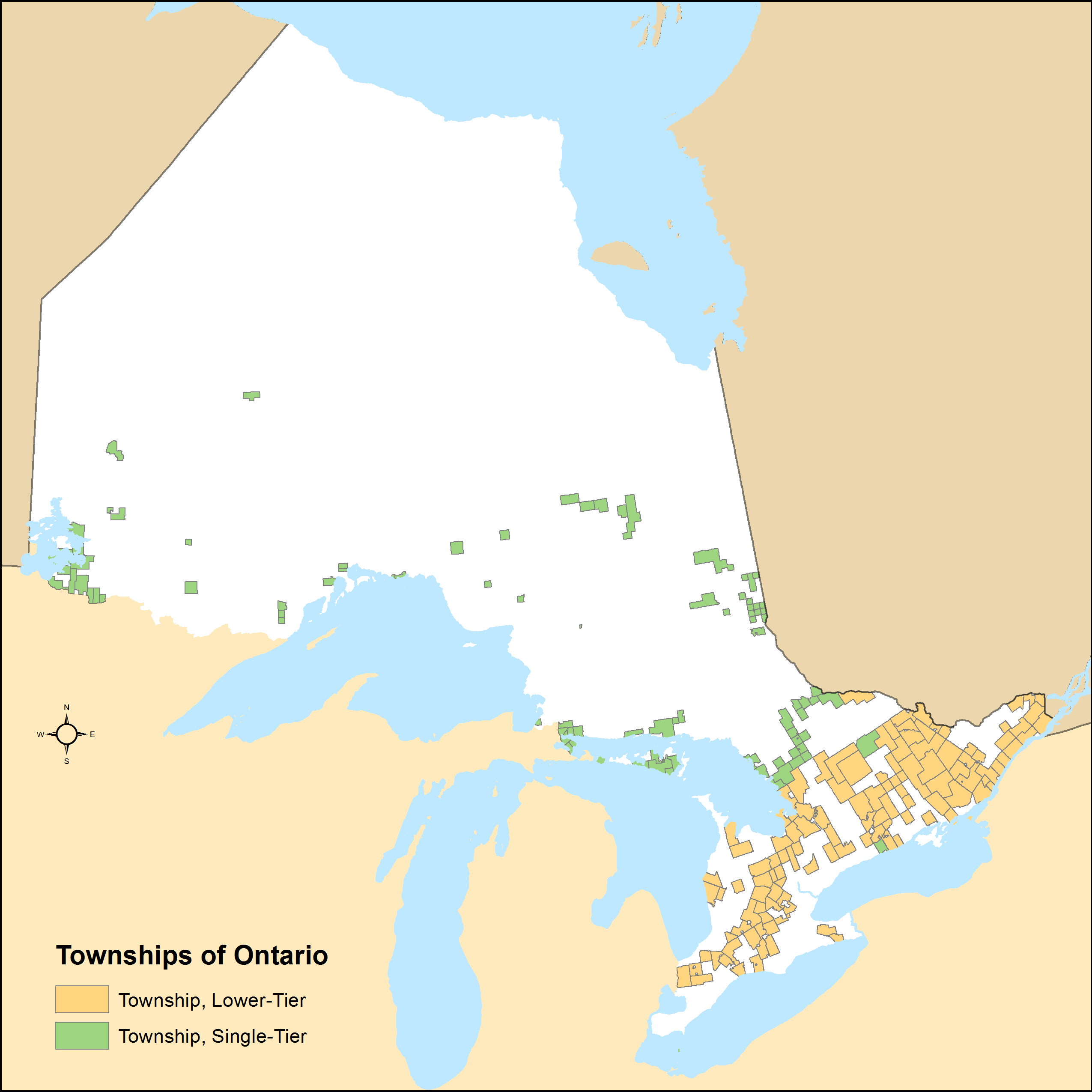 Distribution of Ontario's 202 municipalities that hold "township" status, differentiating between those that are single-tier and lower-tier municipalities, utilizing Statistics Canada's census subdivisions from the 2011 census